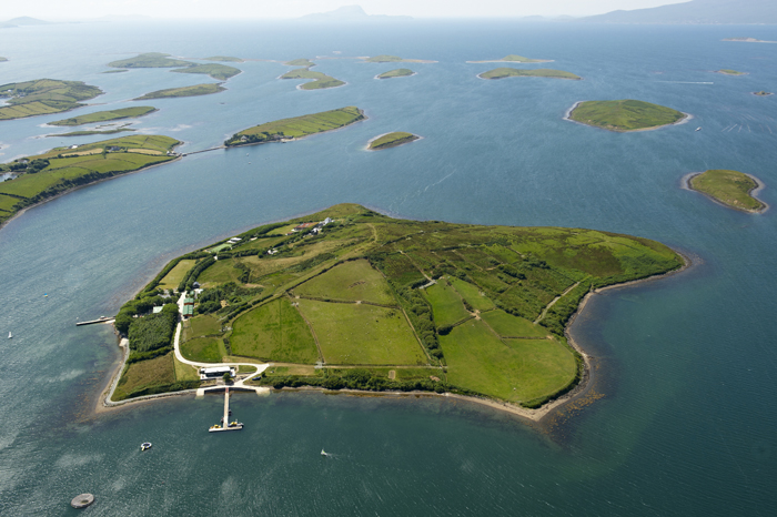 The island of Inish Turk Beg, off the West Coast of Ireland, looking west.